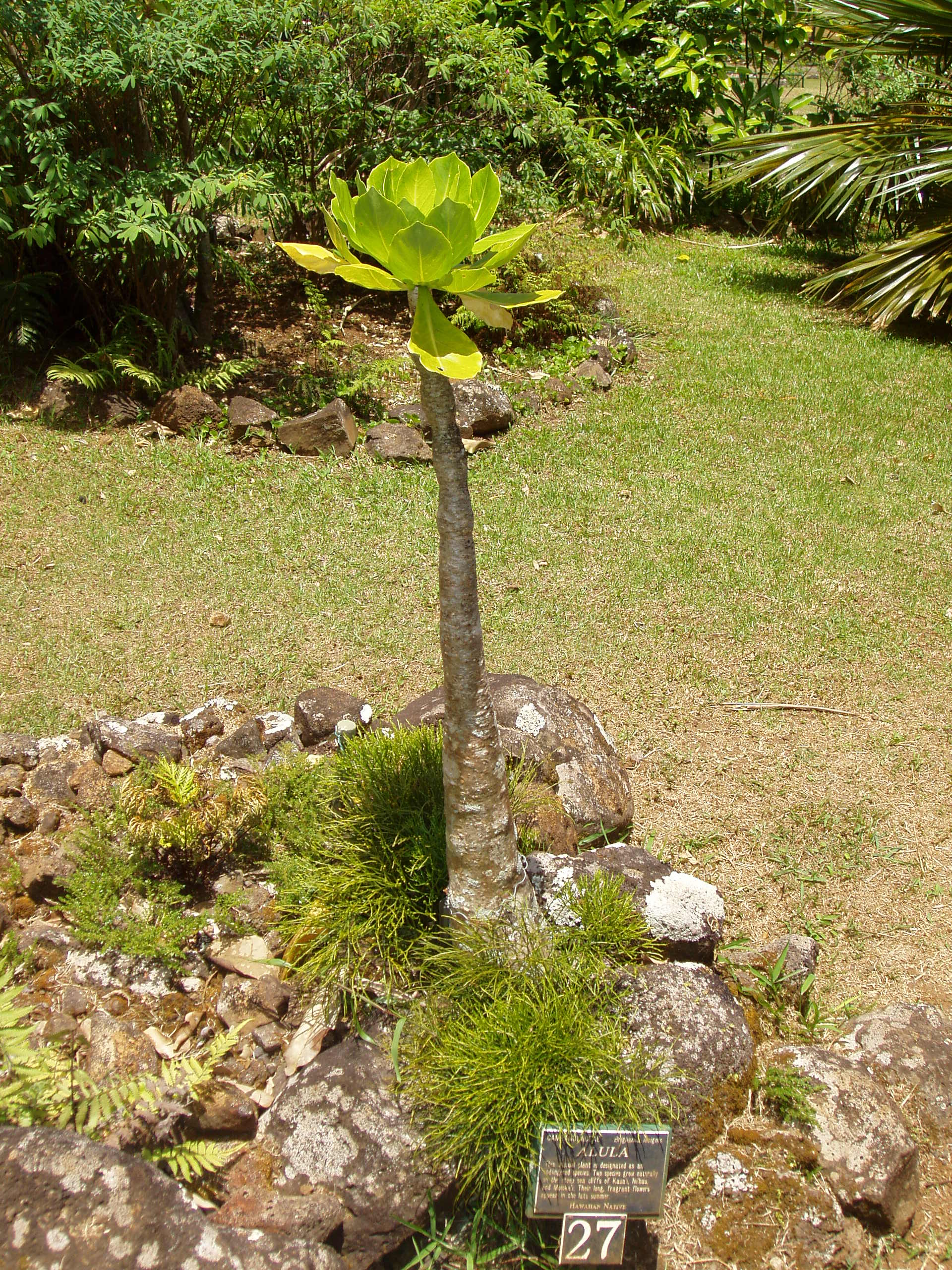 Brighamia insignis - general view. From the Limahuli Garden and Preserve, Kauai, Hawaii.